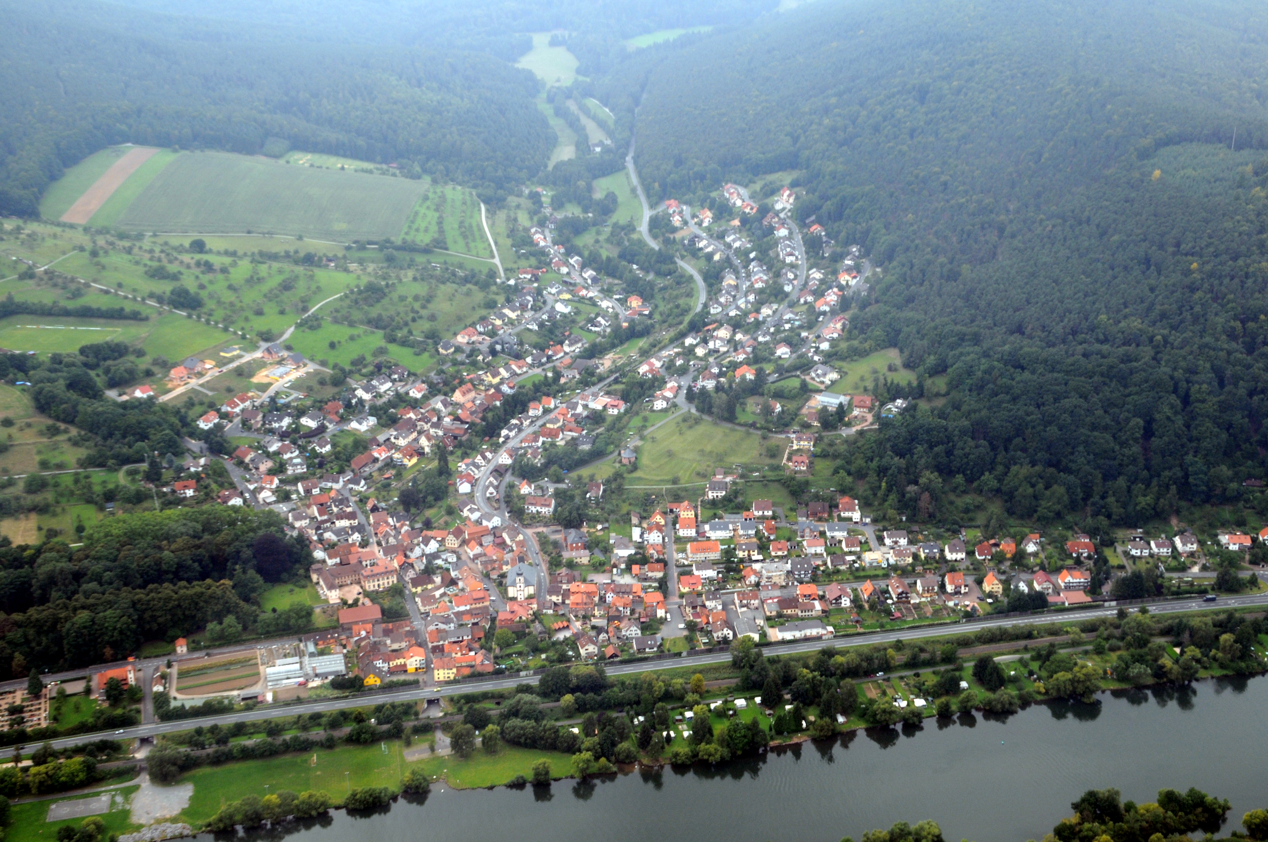 Laudenbach, Bavaria, Germany, aerial photograph